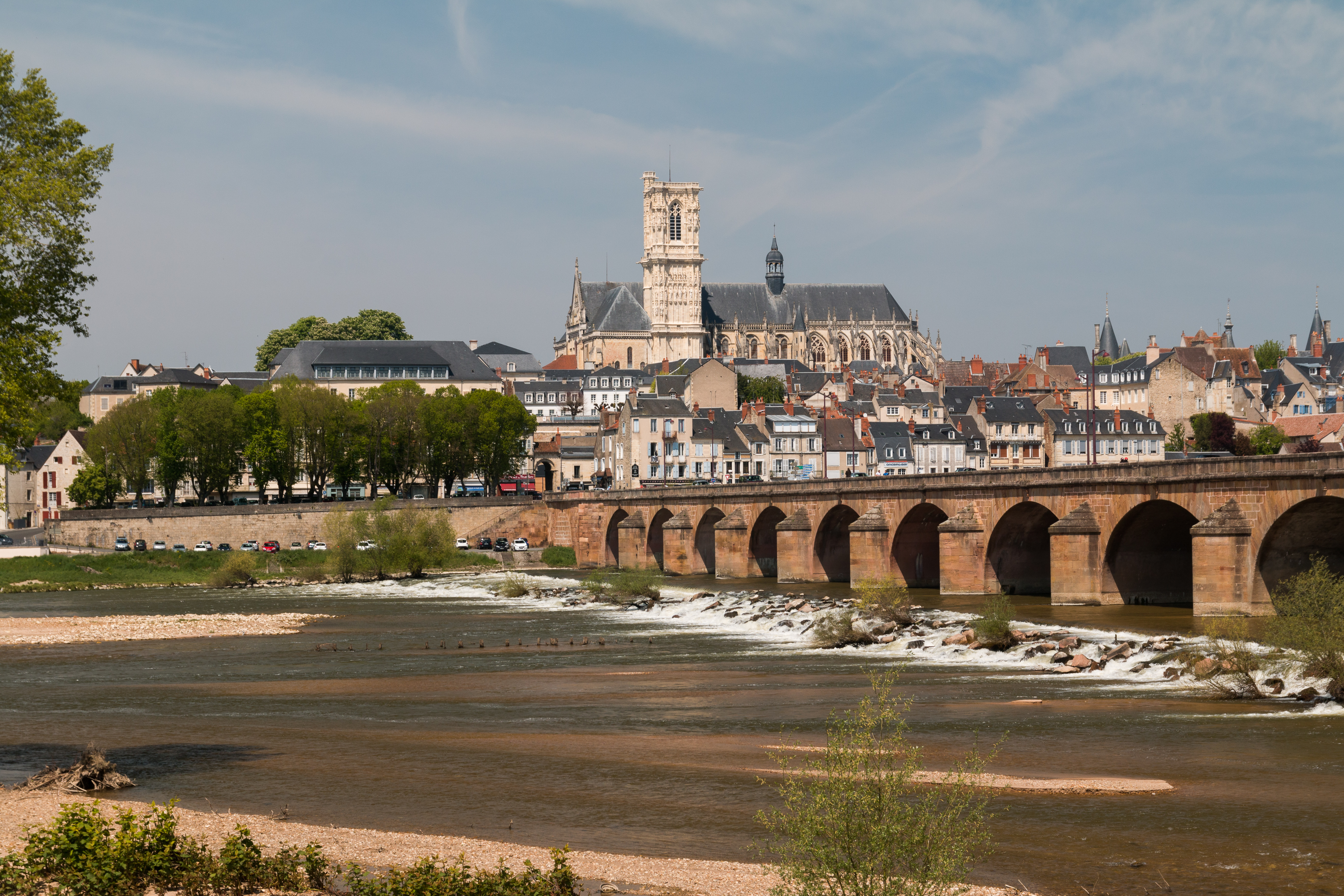 Panorama of Nevers city view from the Street of Plateau de la Bonne Dame